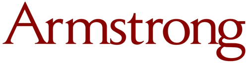 logo for ASU.